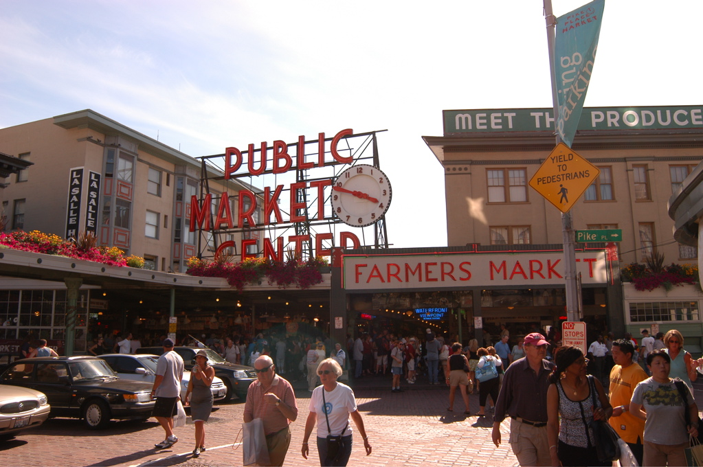 The Pike Place Market in Seattle at the corner of Pike St. and Pike Pl.